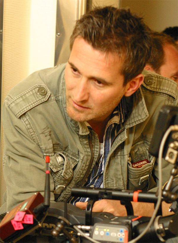 Der Kameramann Peter Nix bei den den Dreharbeiten zu "Wer hat Angst vorm schwarzen Mann?" in Wien, 2009.